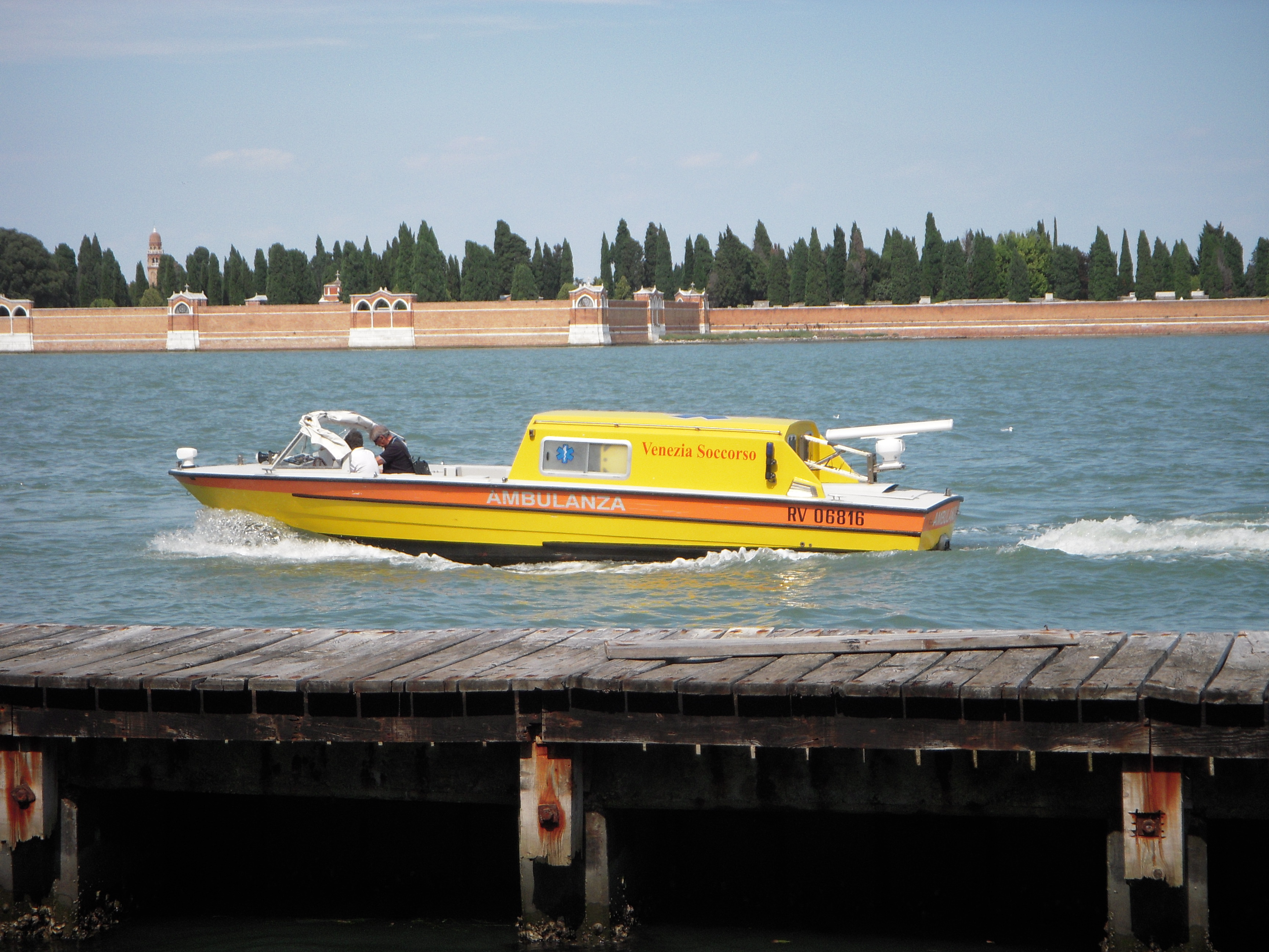 An ambulance boat in the canal close to the Hospital of Venice. August 12, 2012.